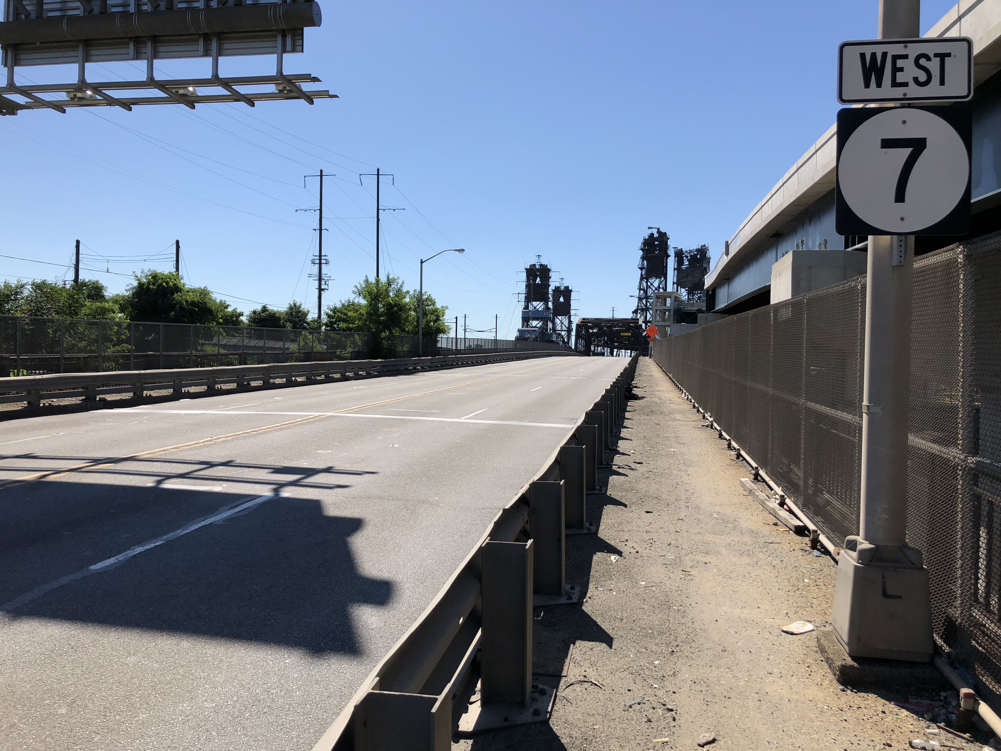 View west along New Jersey State Route 7 (Newark Avenue) just west of U.S. Route 1 Truck and U.S. Route 9 Truck in Jersey City, Hudson County, New Jersey